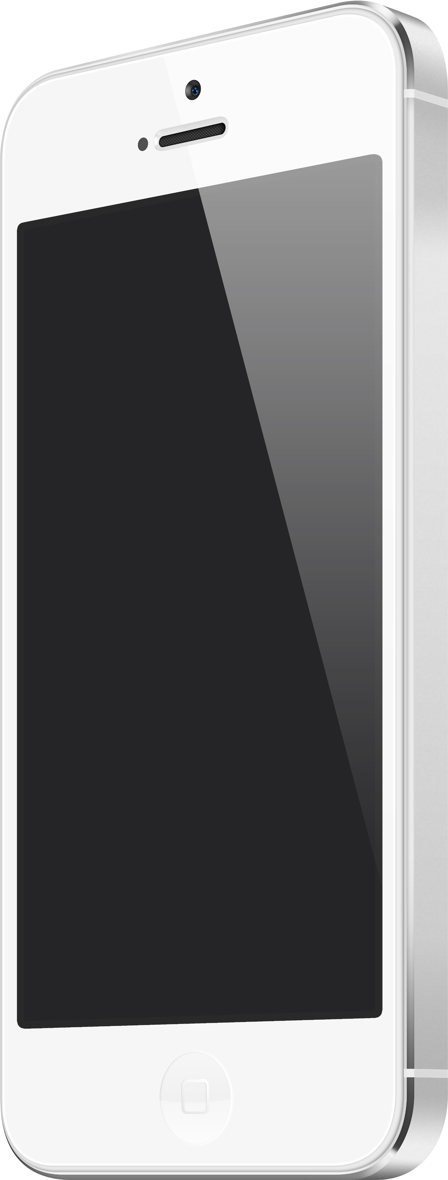 Apple iPhone 5 in white, image rendered